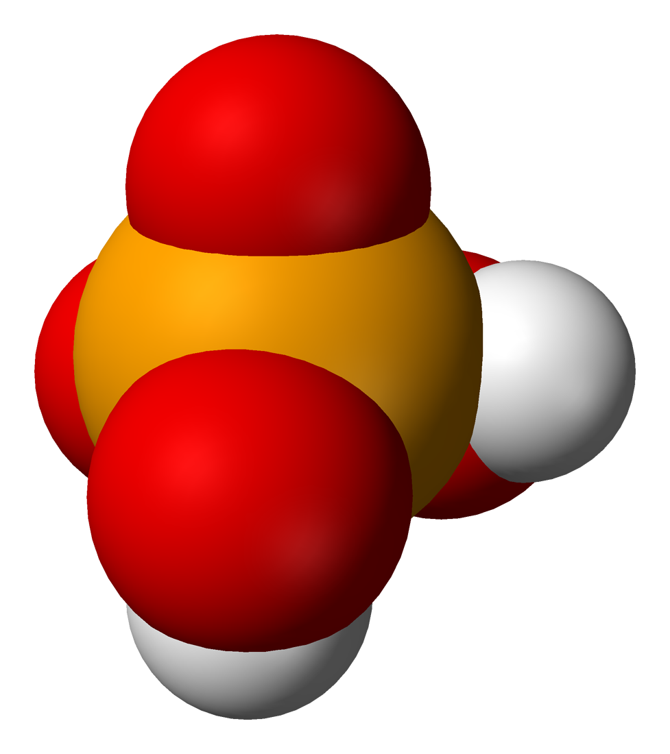 Space-filling model of the selenic acid molecule